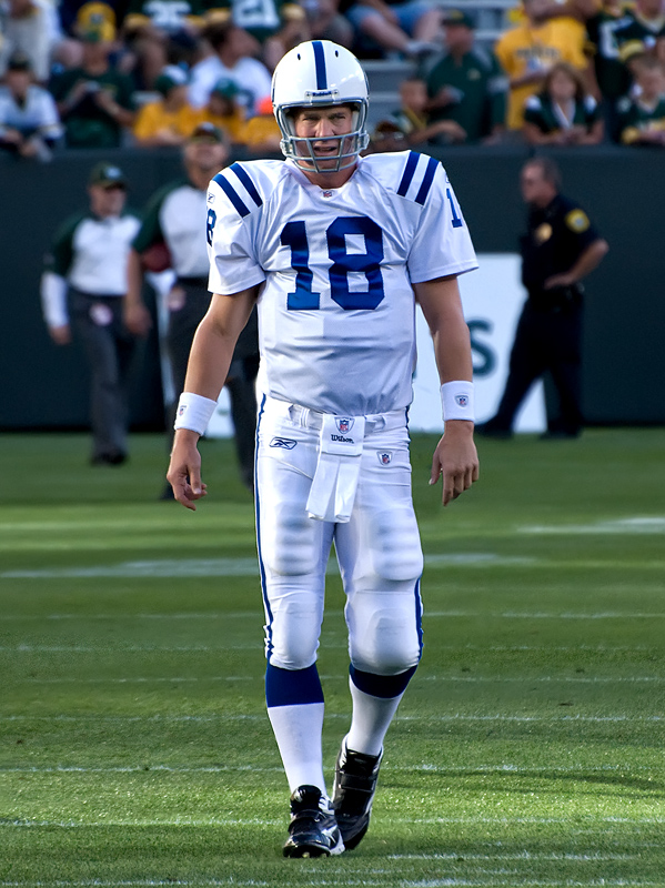 Lambeau Field, August 26, 2010. Photo by Mike Morbeck.